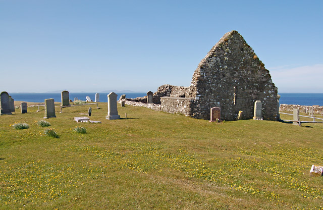 Trumpan Church Trumpan Church was the site in 1578 of a revenge attack by the MacDonalds of Uist on the MacLeods. The MacDonalds crept up on the church, which was filled by a worshipping congregation. They barred the only door and set fire to the thatch, killing all the occupants save one young girl. She died of her injuries, but was instrumental in raising the alarm and thus securing the butchering of all the MacDonalds by the men of MacLeod of Dunvegan.